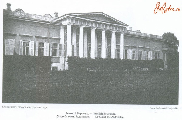 Veliky Burluk Manor in the Governorate of Kharkov